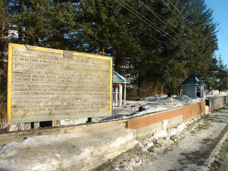 Cemetery containing the remains of some members of the Taku Indians' Raven Clan, with large informational plaque